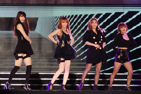 Miss A at Hallyu Dream Concert, 3 October 2011